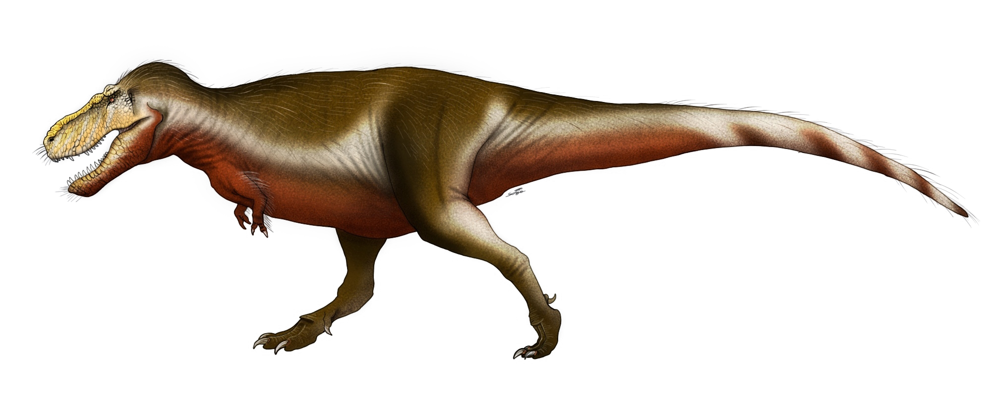 Late cretaceous tyrannosaurid, paleoart.